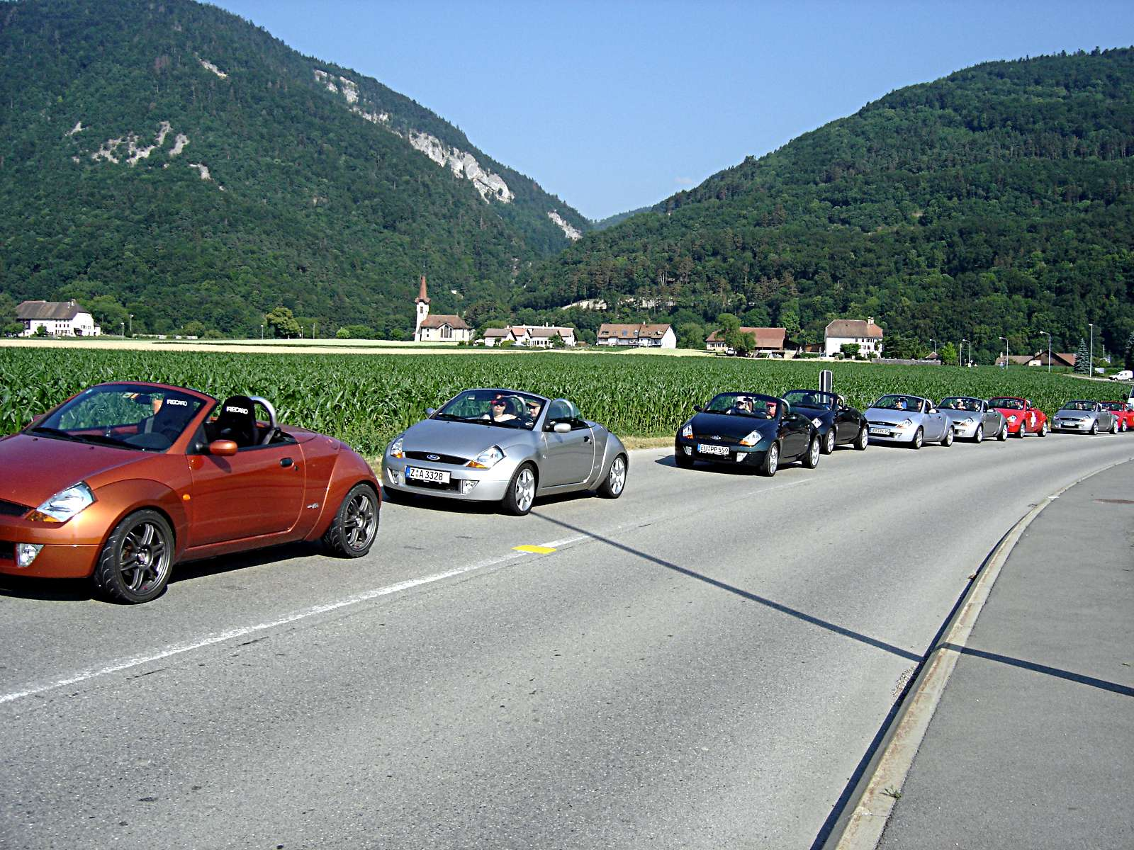 Waiting for the Yverdon - Sainte-Croix train to pass at Vuiteboeuf, Vaud, Switzerland